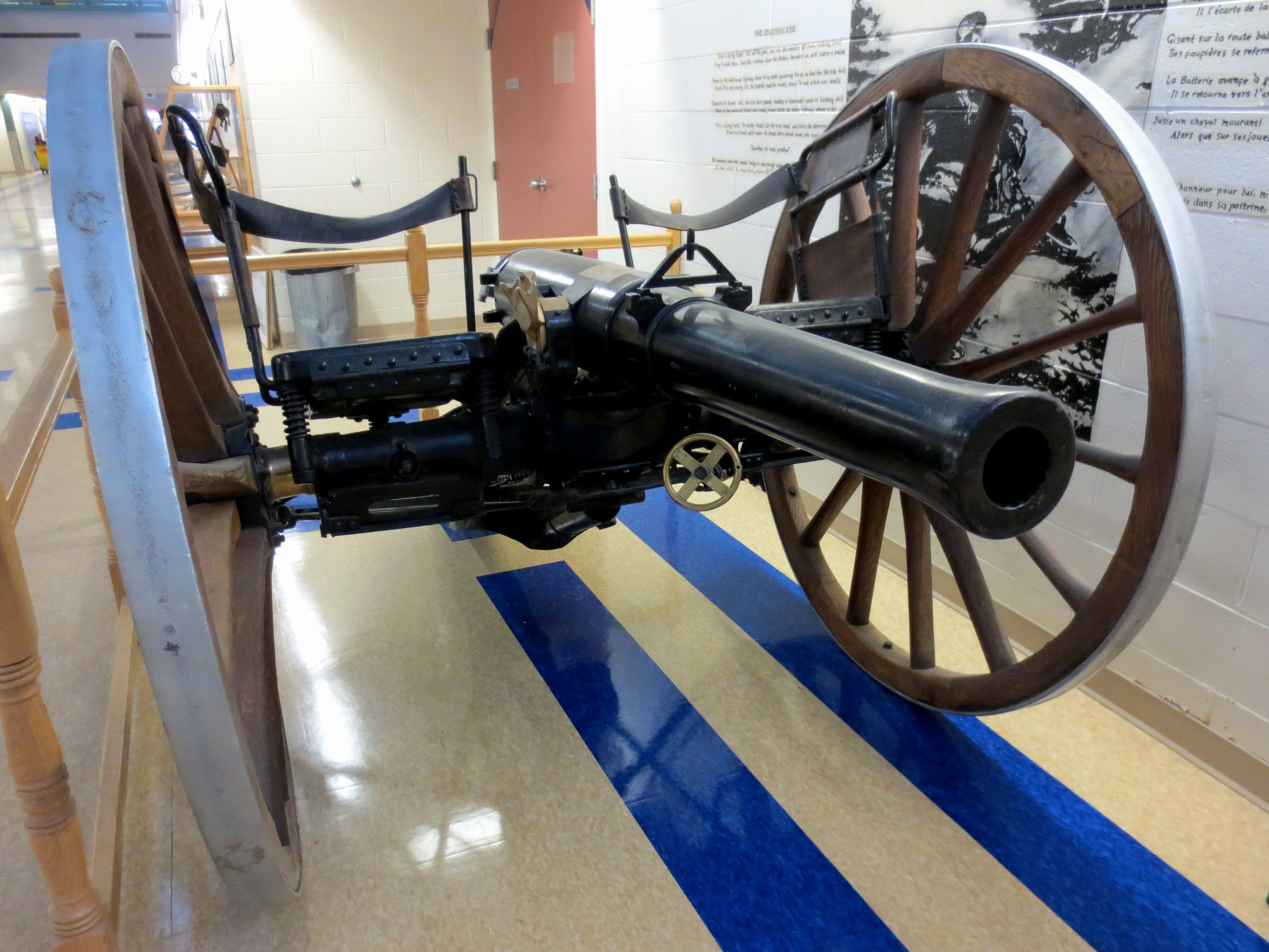 The British Rifled Breech Loader 12-pounder 7-cwt was a 3-inch field gun of 1883. The one shown here is on display in the Royal Regiment of Canadian Artillery School (RRCAS) at 5 Canadian Division Support Base Gagetown, New Brunswick in Canada.